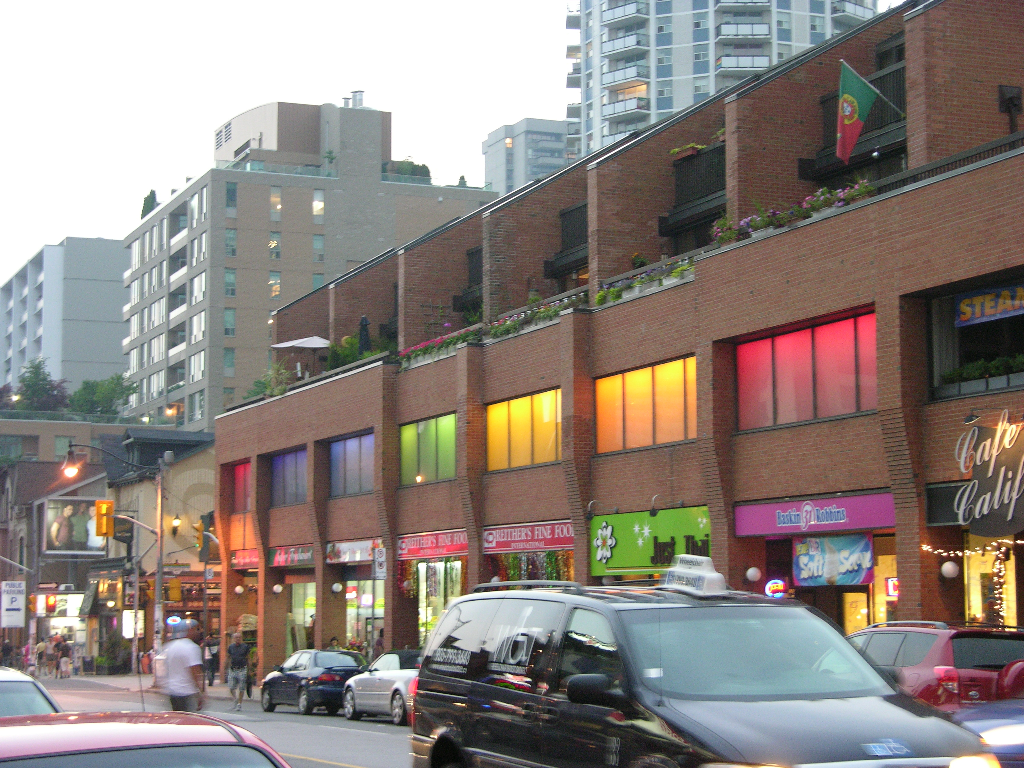 A view facing south on Church Street near Bloor in Toronto Ontario.